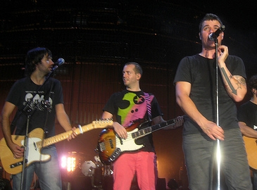 Canto del Loco concert.